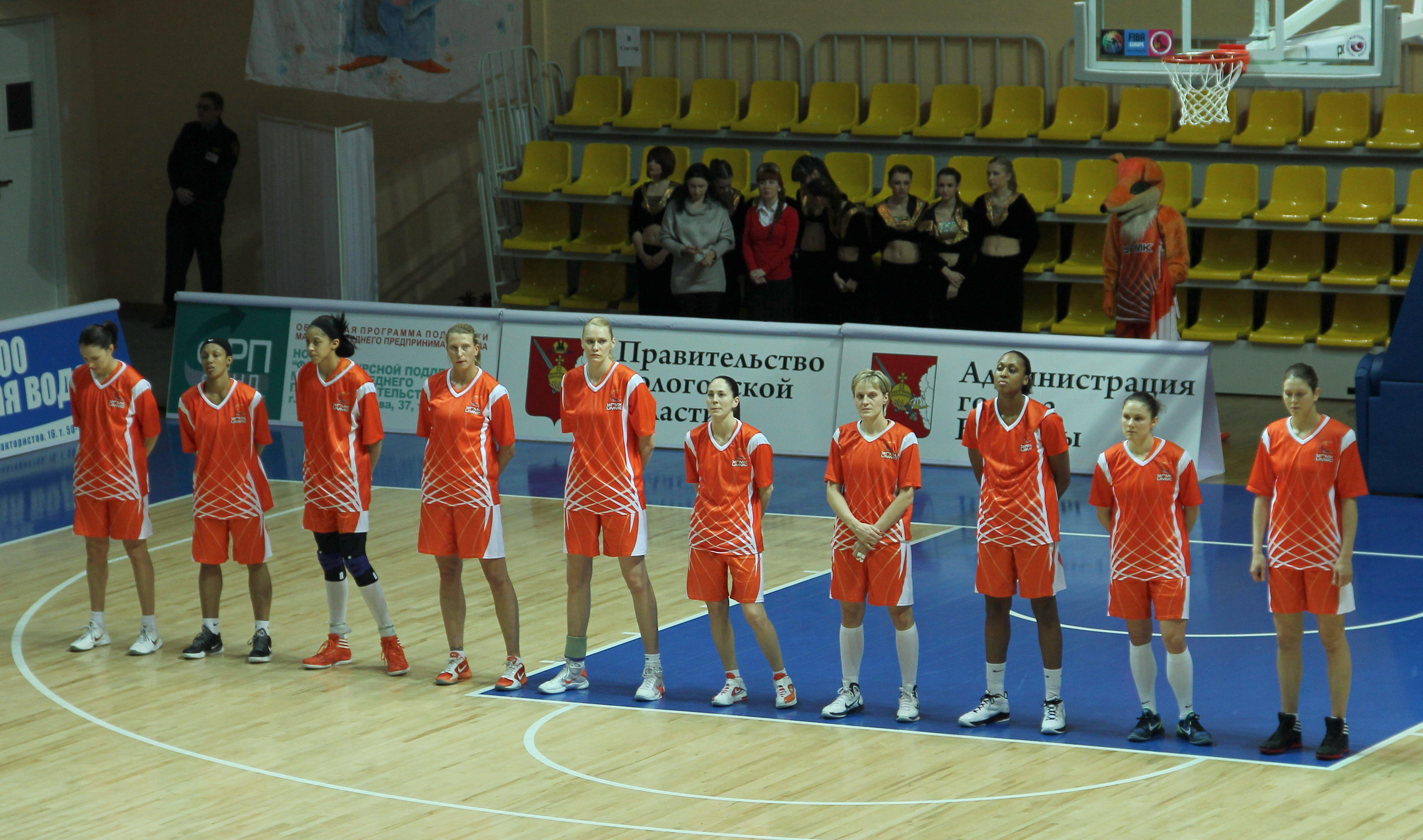 Russia, Women's basketball club «UMMC» (Yekaterinburg)